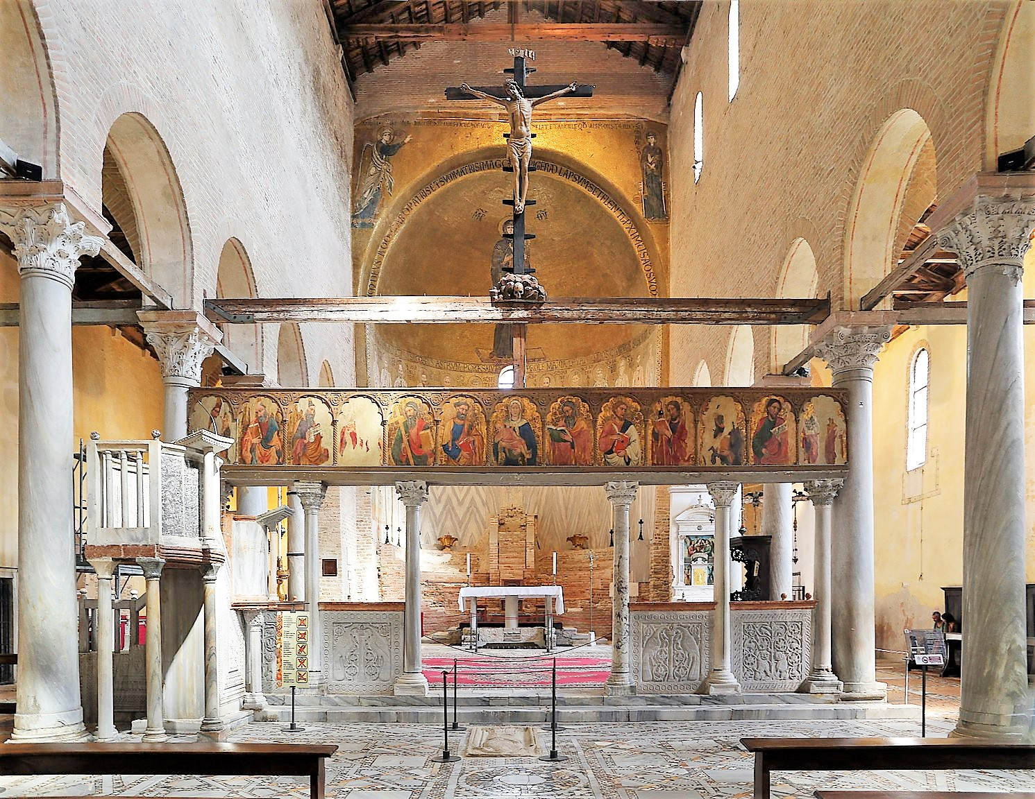 Santa Maria Assunta (Torcello)